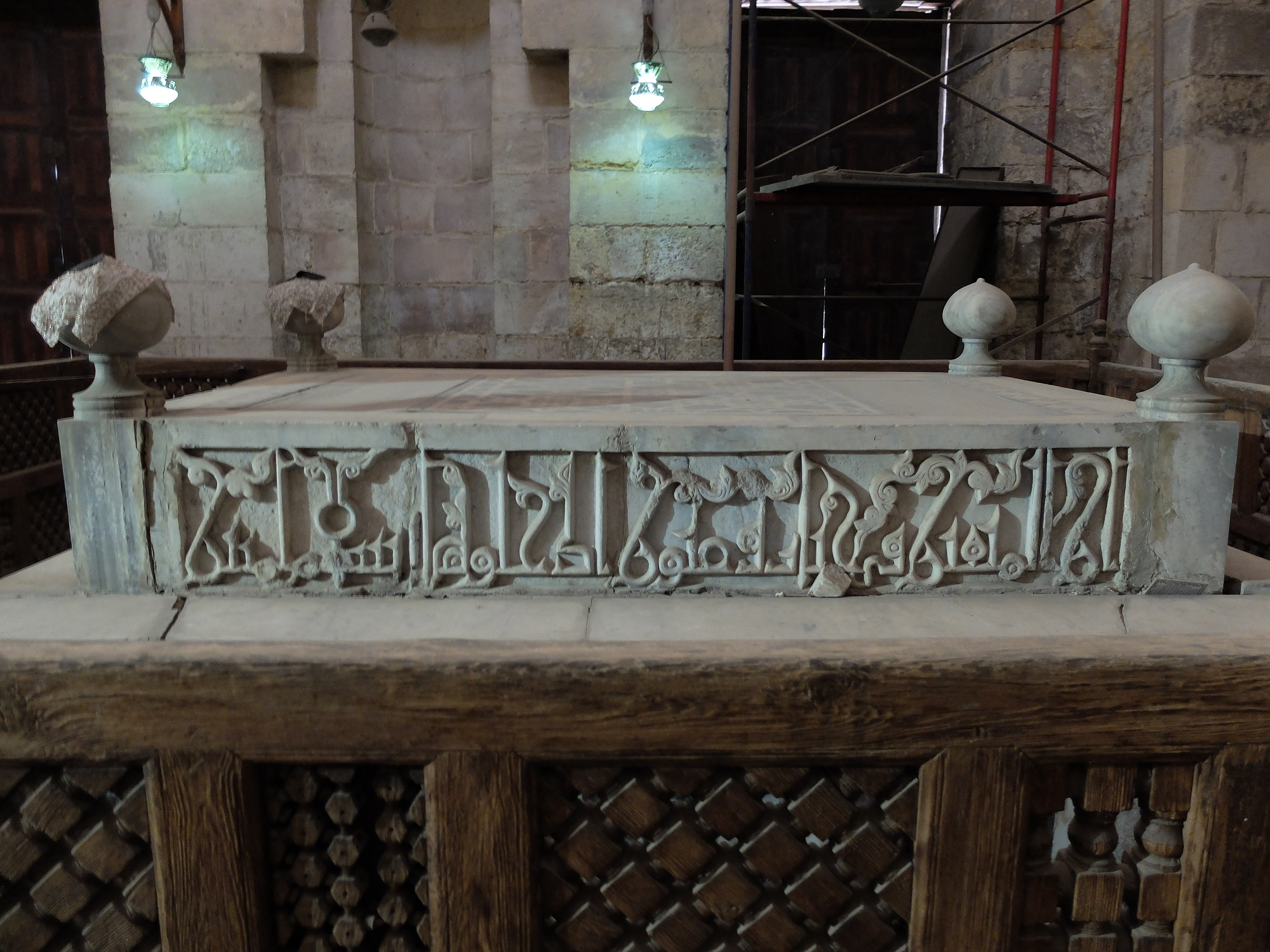 The marble cenotaph of al-Mu'ayyad in the Mosque of Sultan al-Mu'ayyad, believed to be spolia from the Fatimid period based on the style of Kufic Arabic carved into it.